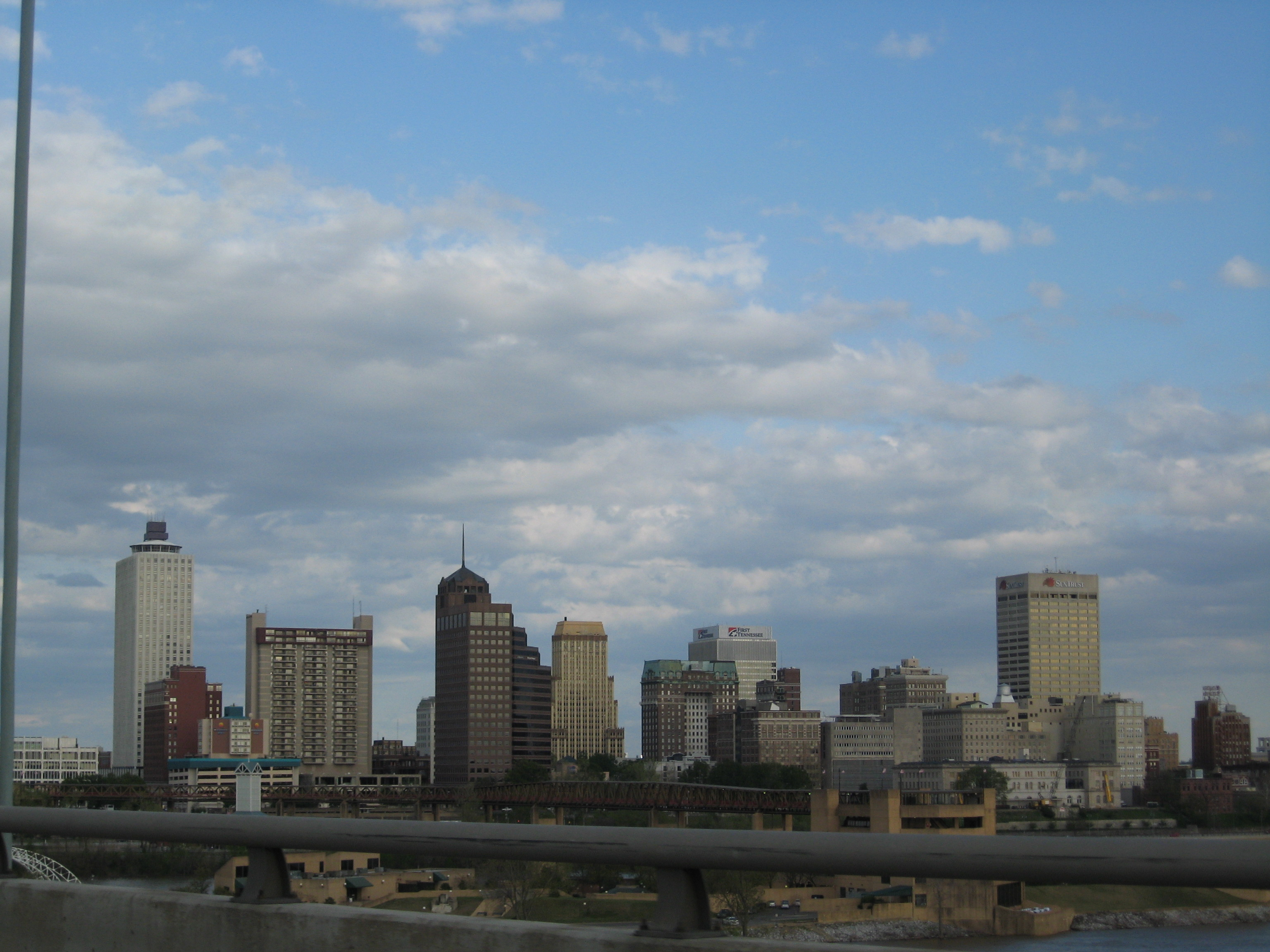 Memphis Skyline